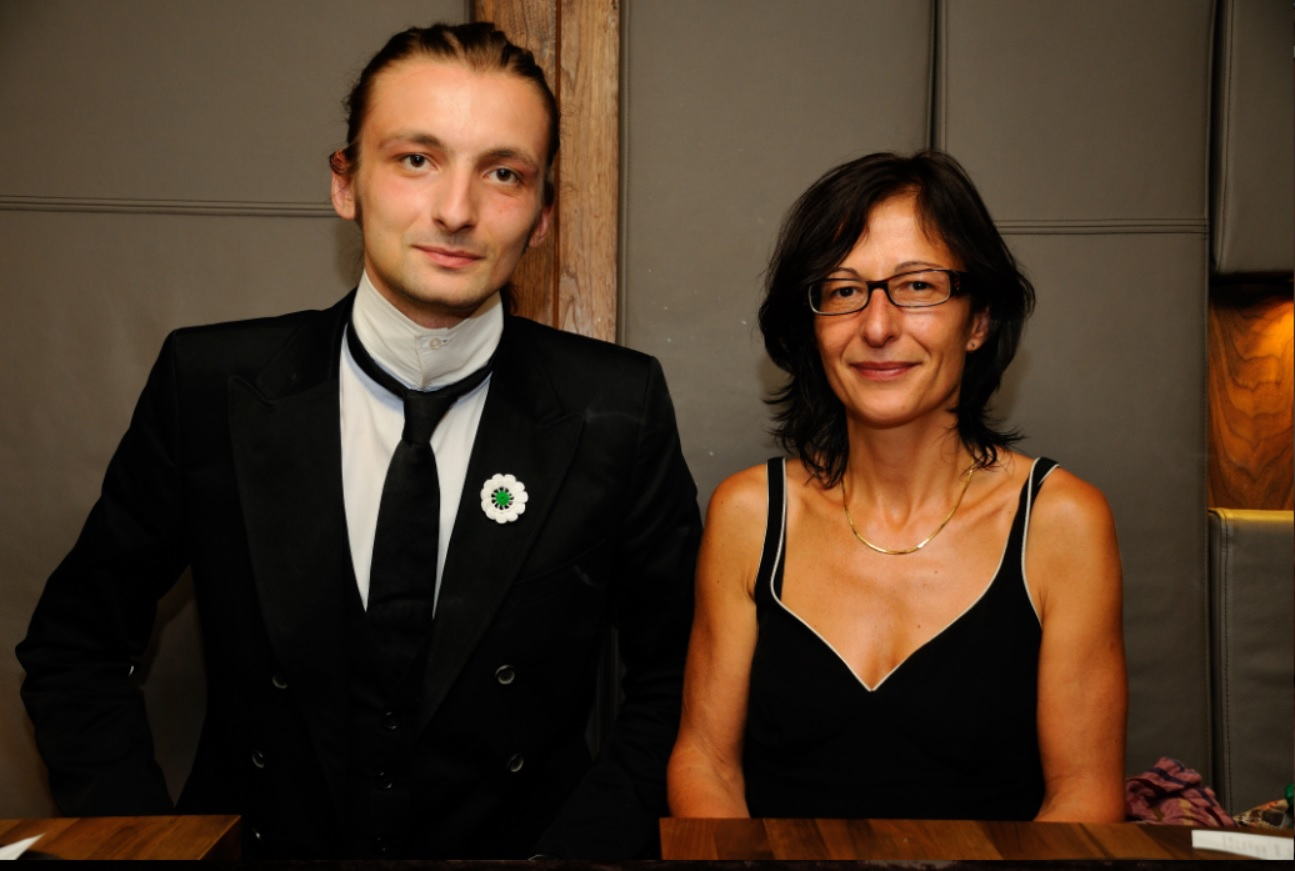 Edvin Kanka Ćudić with Florence Hartmann